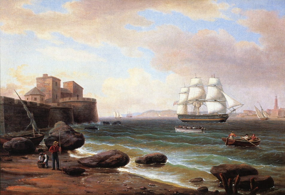 American Merchant Ship Entering Marseilles